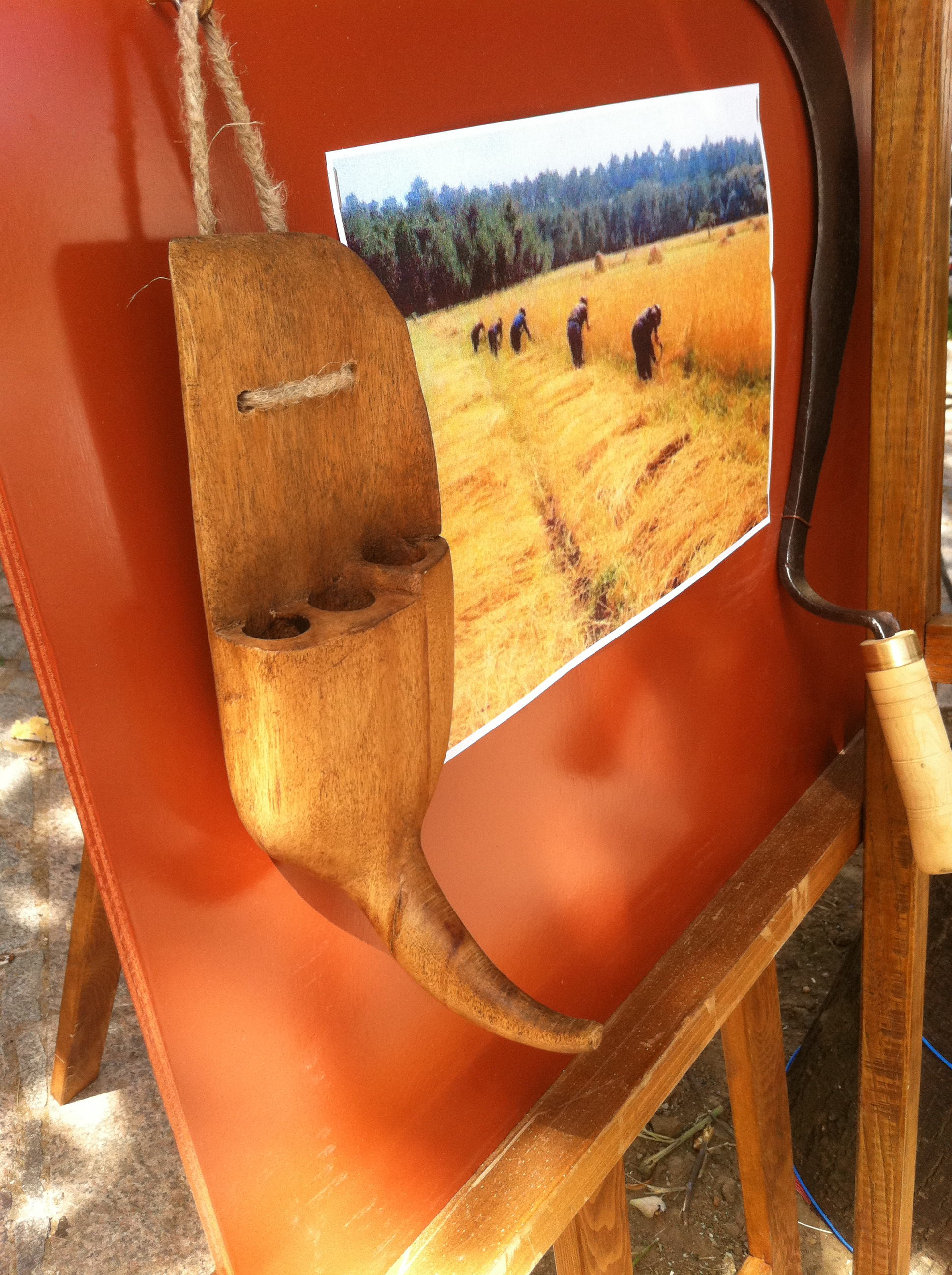 Wooden glove used to protect from the sickle the left hand of a right handed reaper.